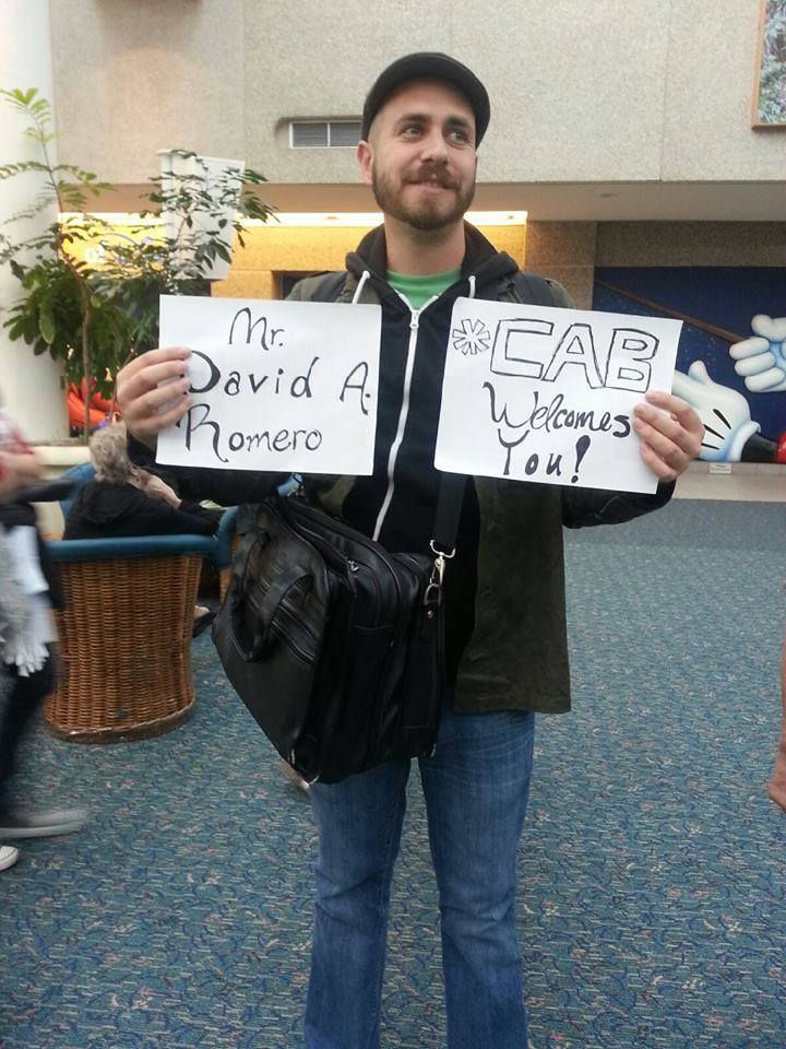 Members of the Campus Activities Board of the University Central Florida take Romero's picture as he arrives in Orlando International Airport.